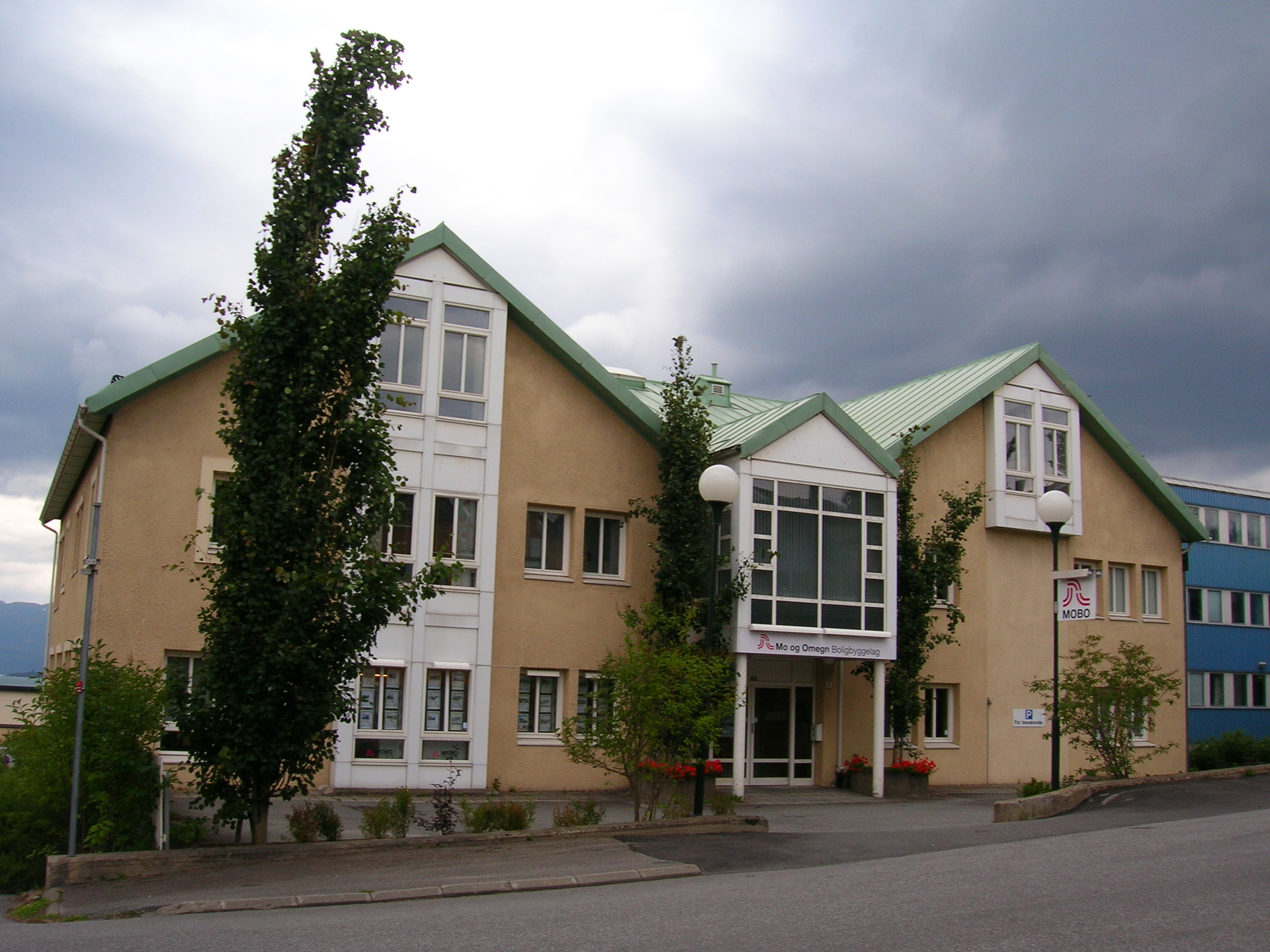 The administration building of Mo og Omegn Boligbyggelag (MOBO) in Mo i Rana. Rana municipality, county of Nordland, Norway. Photo 13 August 2007 with a Nikon Coolpix 5600 5,1 Megapixel camera.